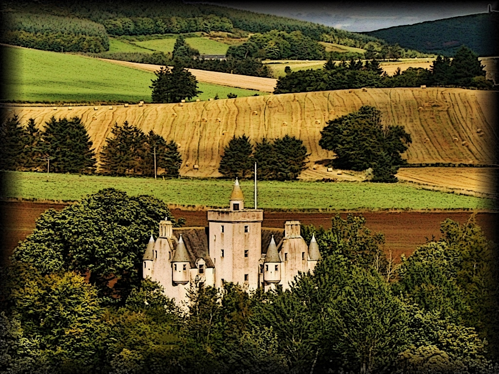 Leslie castle is a unique place to stay, whether it is for a night or a week it has to be on anyone list of things to do.